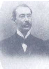 Professor Leopoldo Pereira em 1911